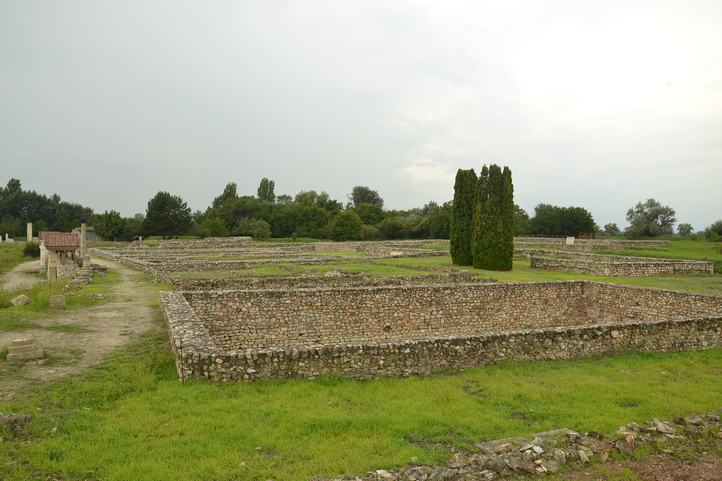 Gorsium - ancient ruins in Hungary, near Lake Balaton